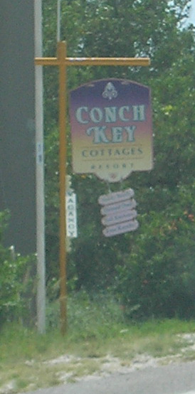 Sign for Conch Key Cottages, taken on Conch Key